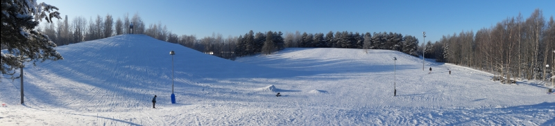 Panoramic image of Helsinki / Kontula sledging park (Kelkkapuisto)